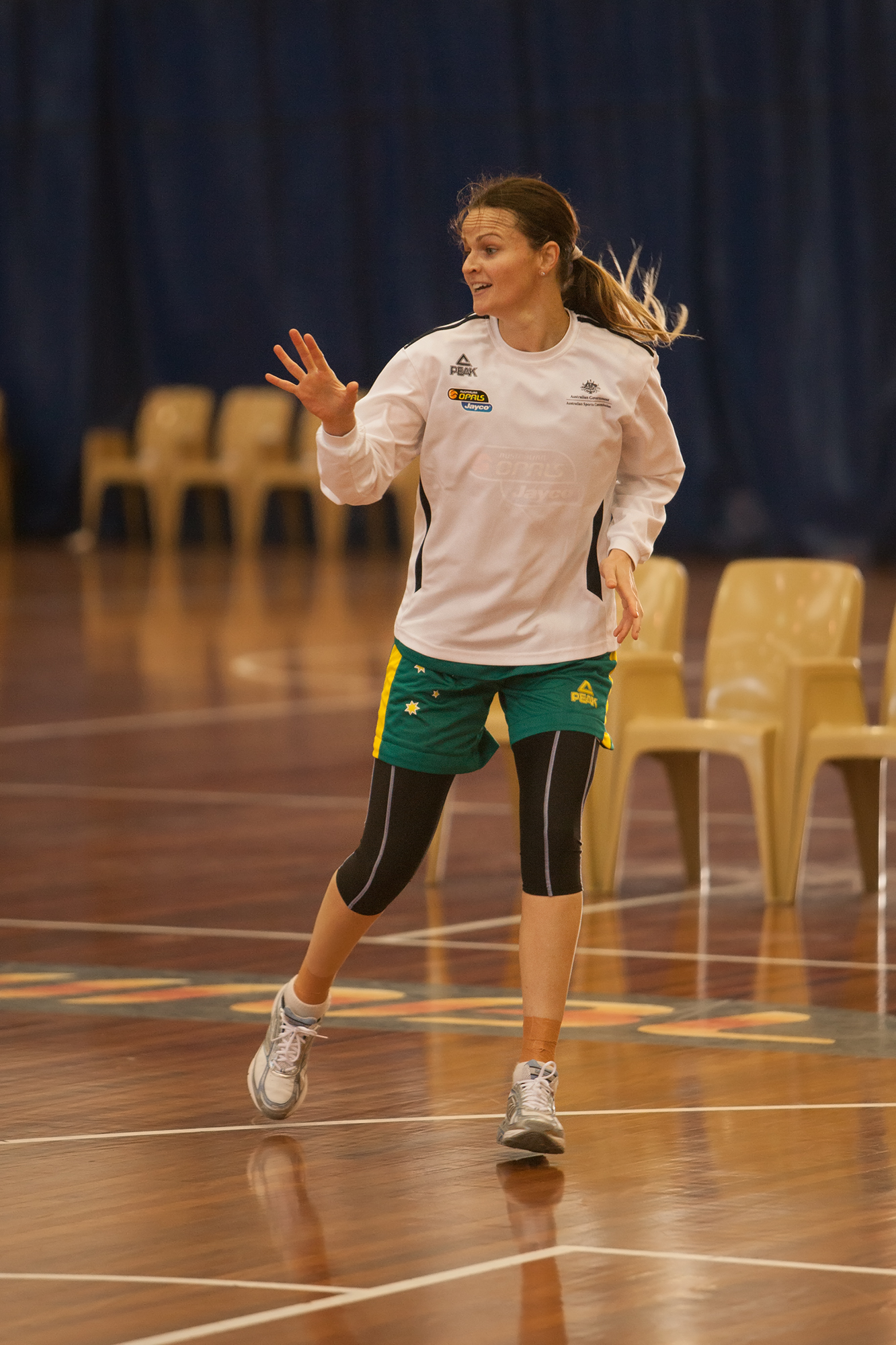 Member of the Opals, Canberra, Australia.